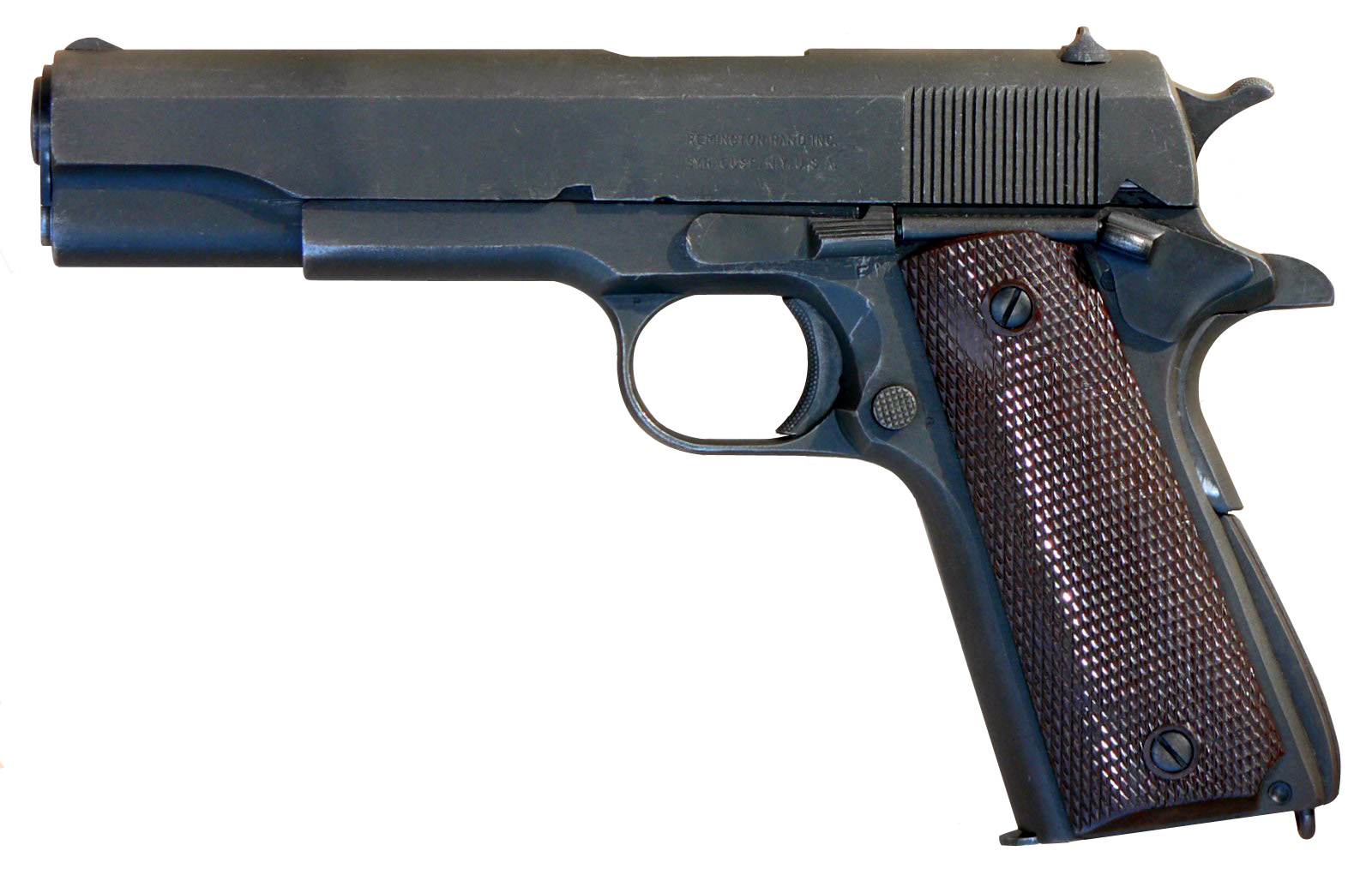 M1911 A1 pistol in .45 ACP by Remington